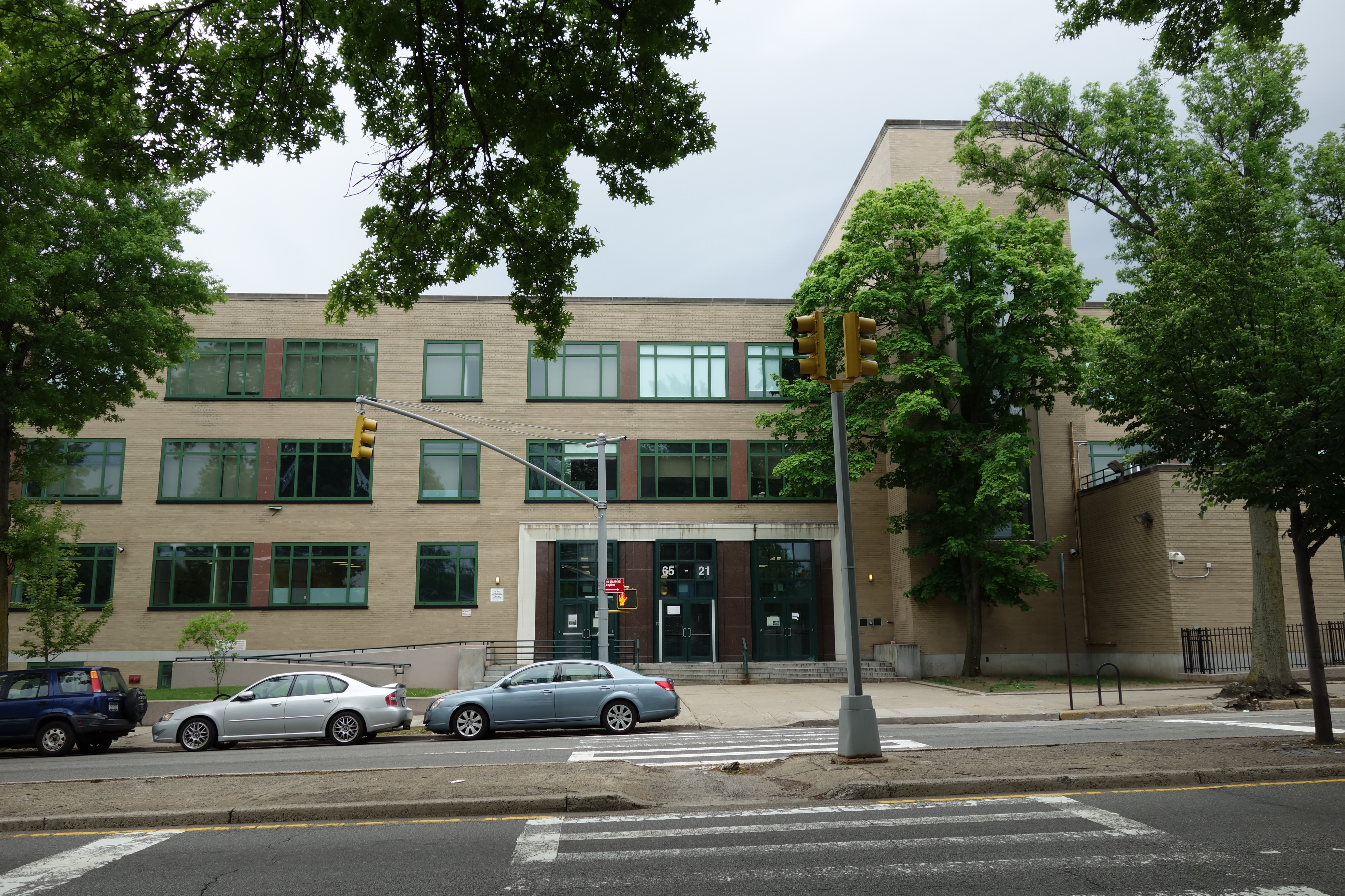 Looking west at Queens Hall, the former CUNY School of Law, at the west end of the Queens College campus on Main Street between Reeves Avenue and Melbourne Avenue in Queensboro Hill / Kew Gardens Hills, Flushing, Queens. This was originally Campbell Junior High School 218, which closed in 1982; it was built as a complex along with the adjacent PS 219 (to the south) and John Bowne High School (to the north).